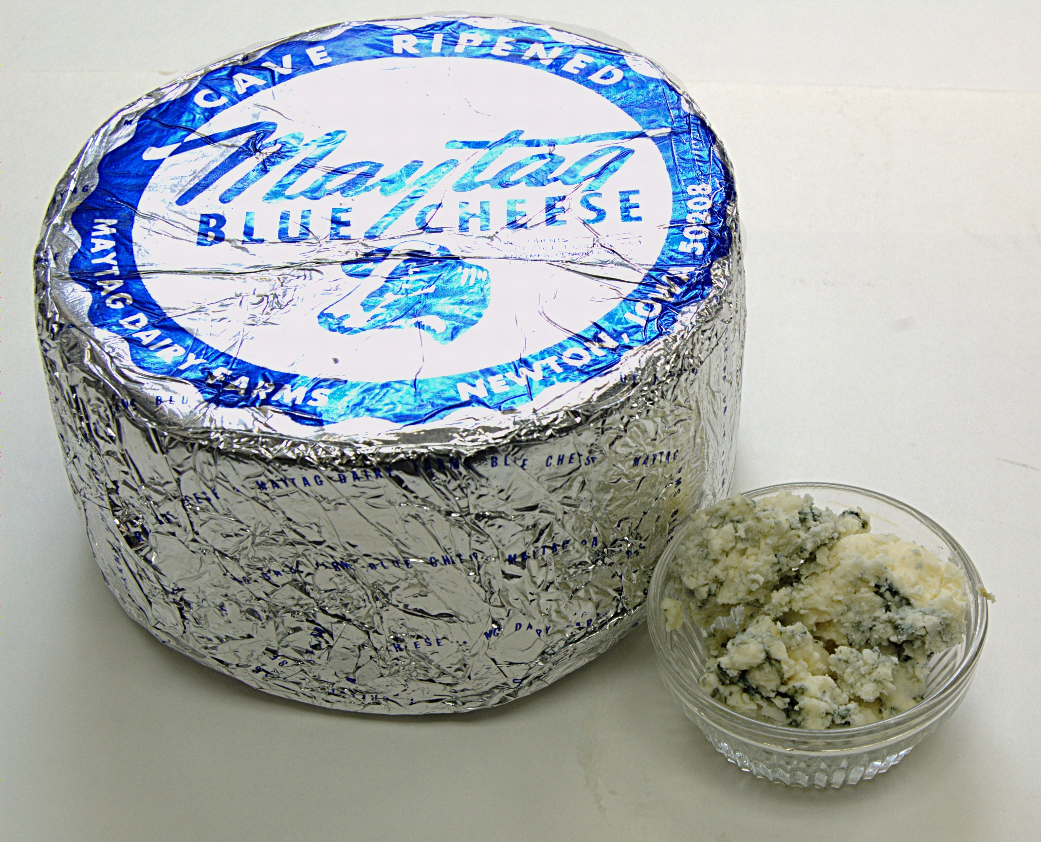 Maytag Dairy Farms' blue cheese in original packaging and in a ramekin for table service. Dish courtesy of The Boathouse at Sunday Park.